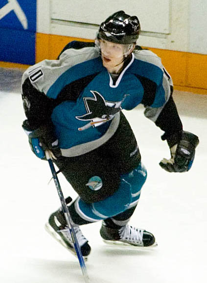 Christian Ehrhoff,Ice hockey player from Germany, Dallas Stars at San Jose Sharks 1/30/2007